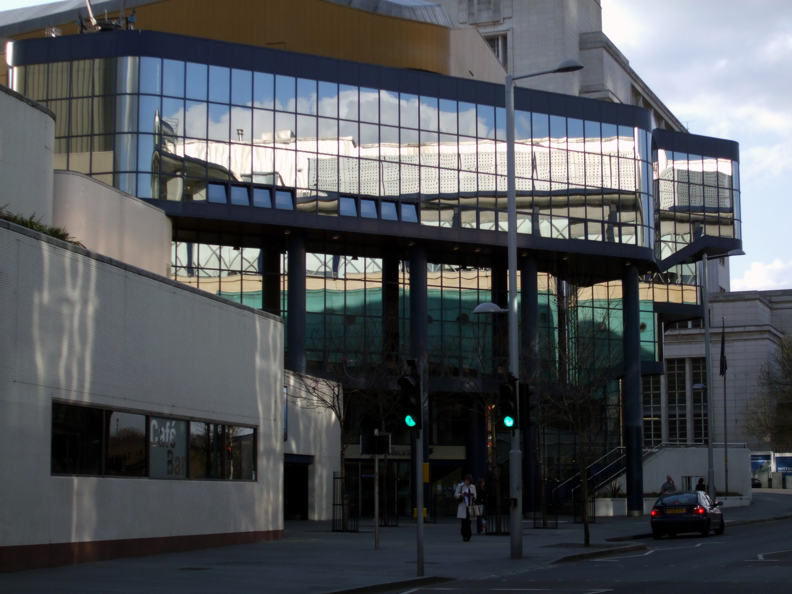 exterior, Royal Concert Hall, Nottingham